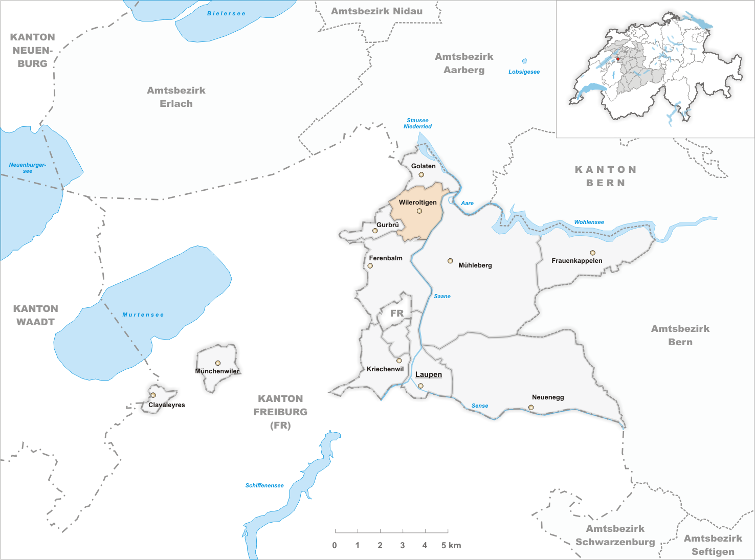 Municipality Wileroltigen